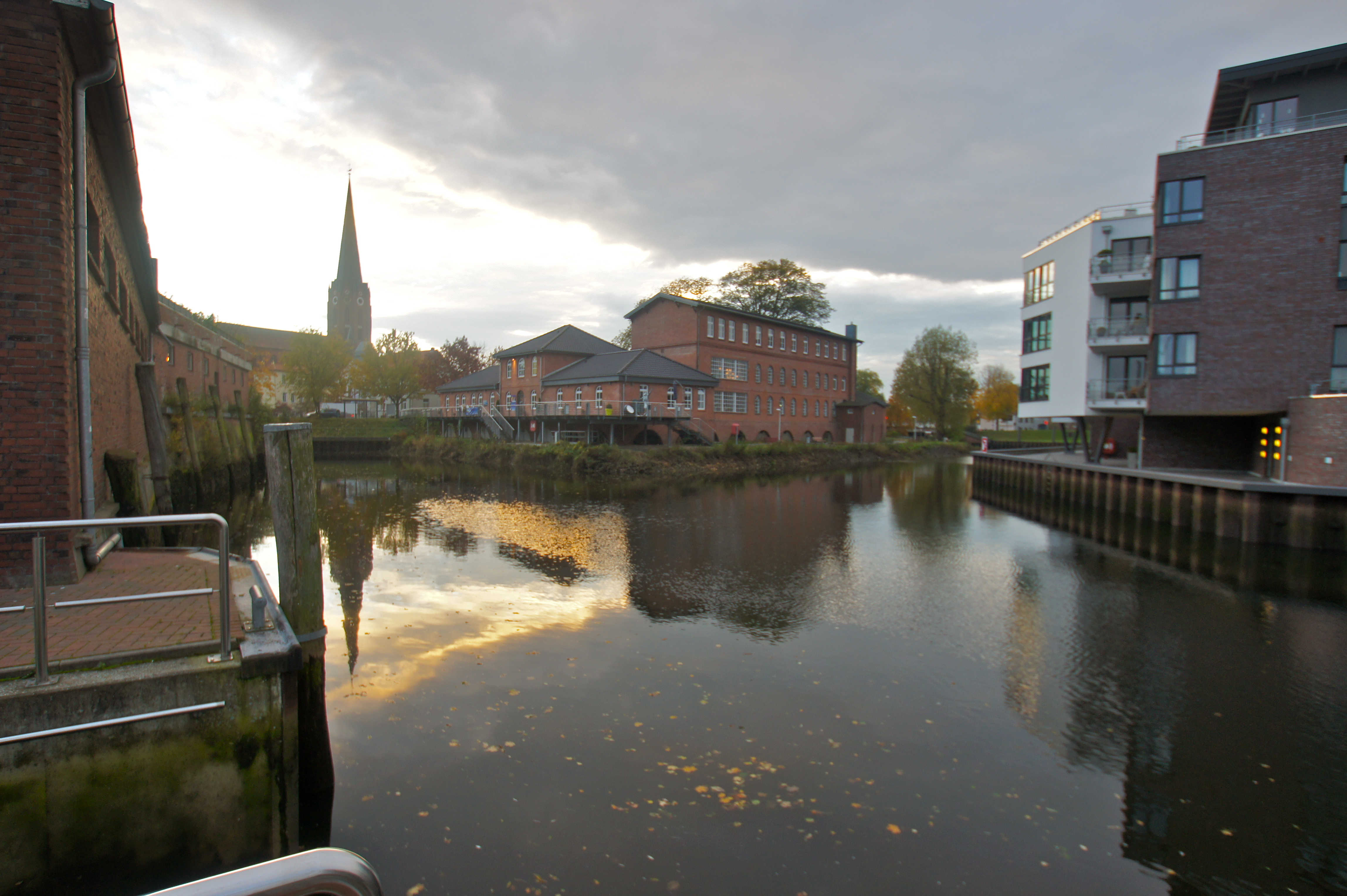 Buxtehude, Germany: The port at the Este (river)